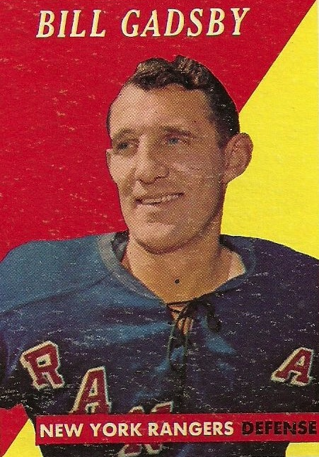 Bill Gadsby, New York Rangers